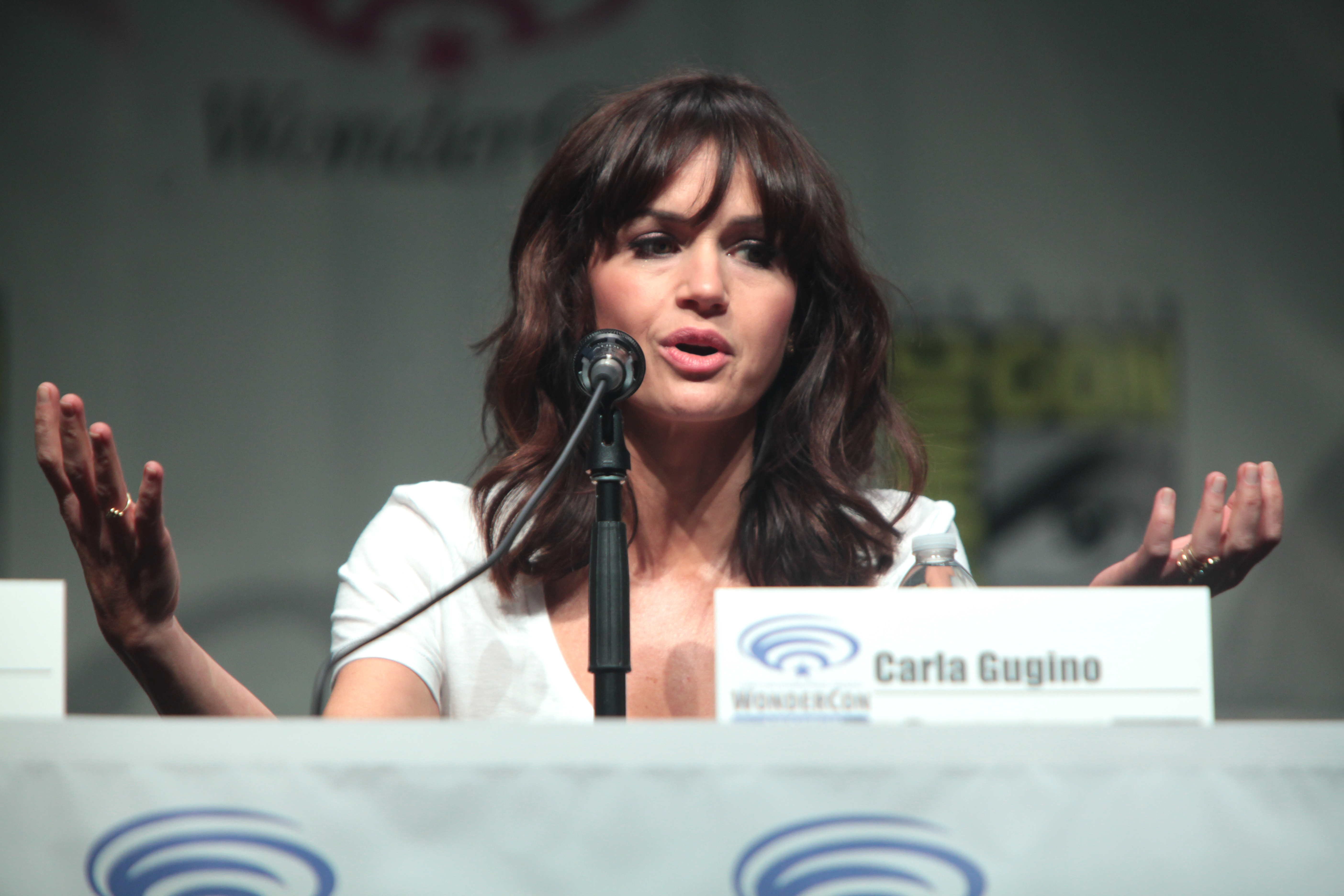 Carla Gugino speaking at the 2015 Wondercon, for "San Andreas", at the Anaheim Convention Center in Anaheim, California.